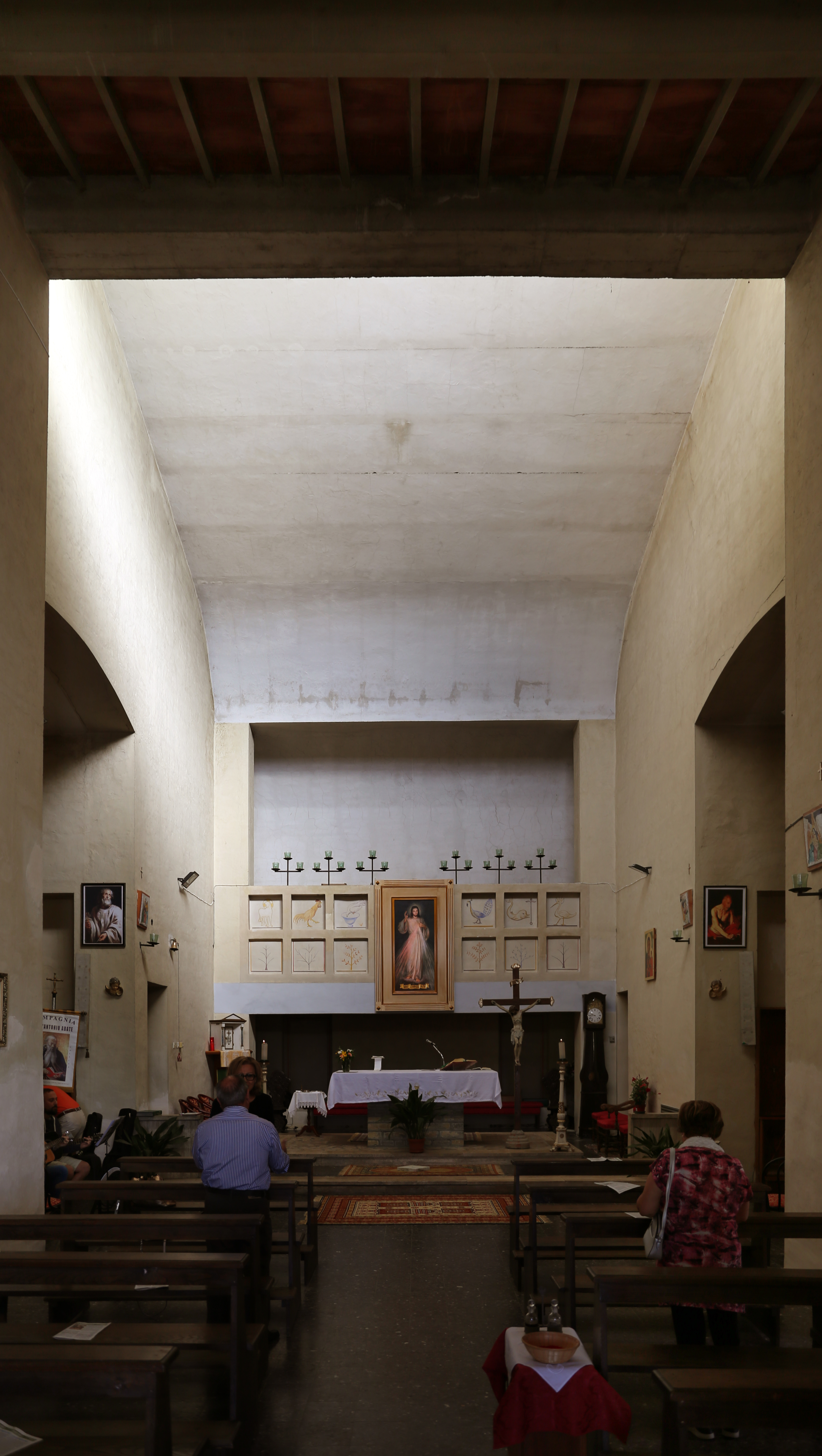 Santi Pietro e Girolamo (Pistoia)